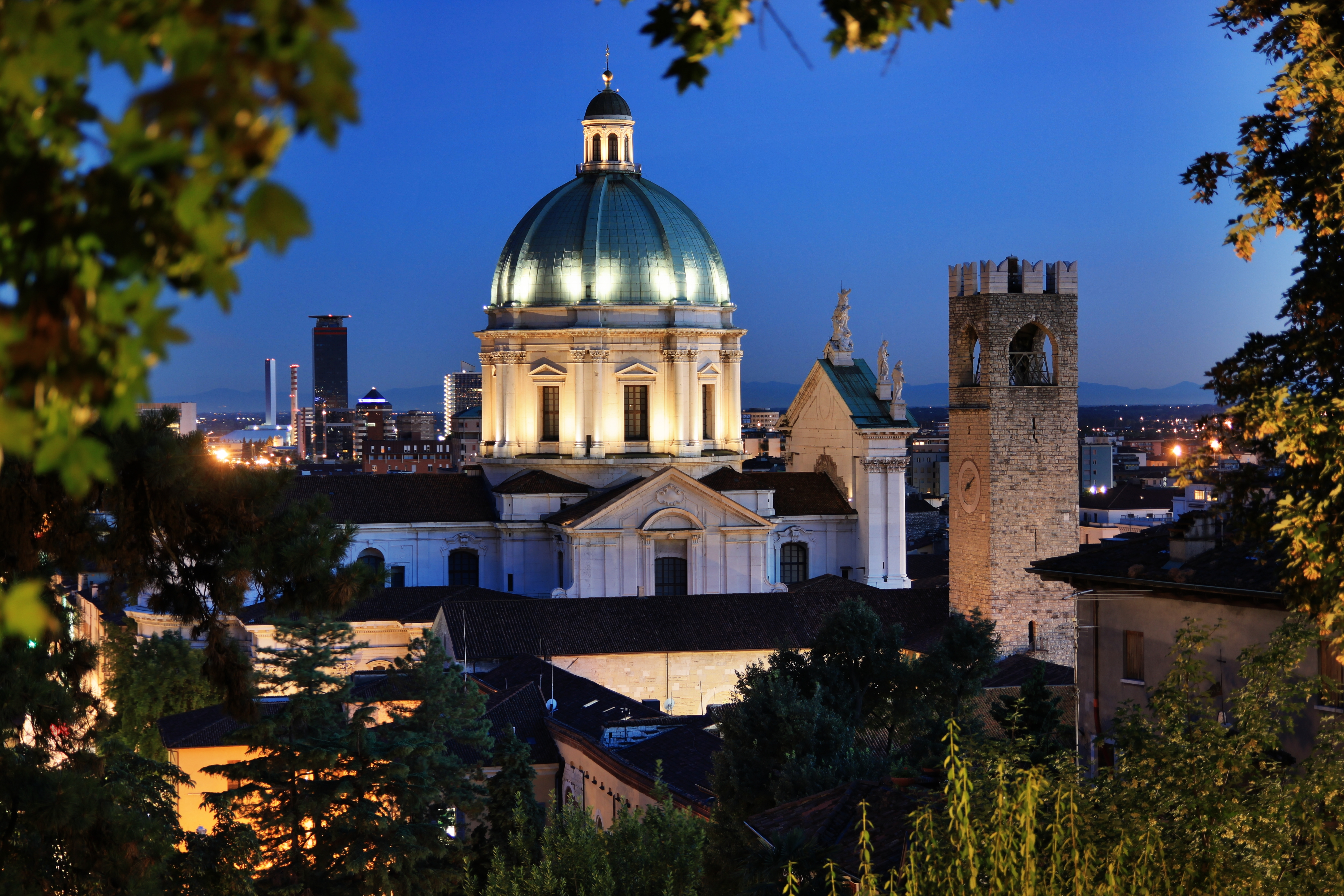 Brescia - Duomo Nuovo viewed by the castle